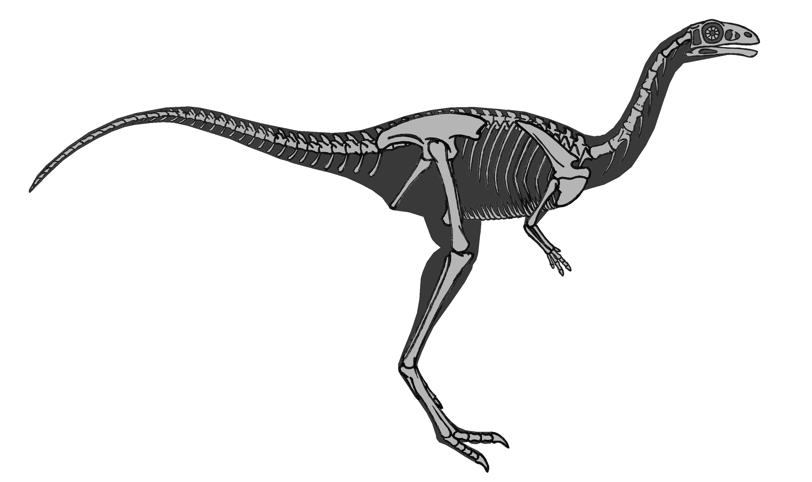 Restoration of the skeleton from the theropod dinosaur Limusaurus.